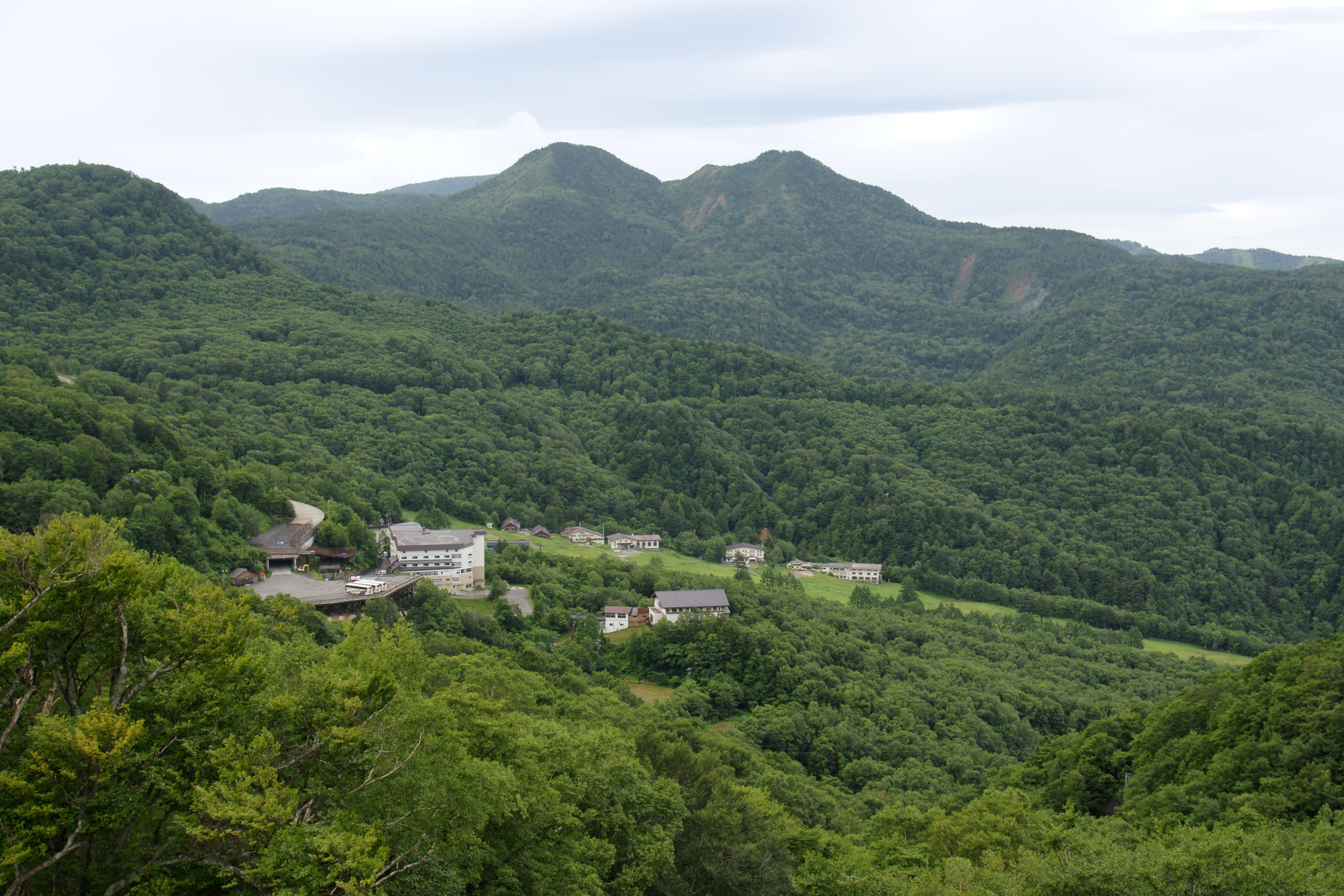 Mt. Shiga and Hoppo Onsen ,Yamanouchi, Nagano prefecture, Japan